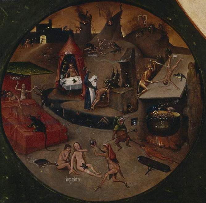 Table of the Mortal Sins [detail: Hell]